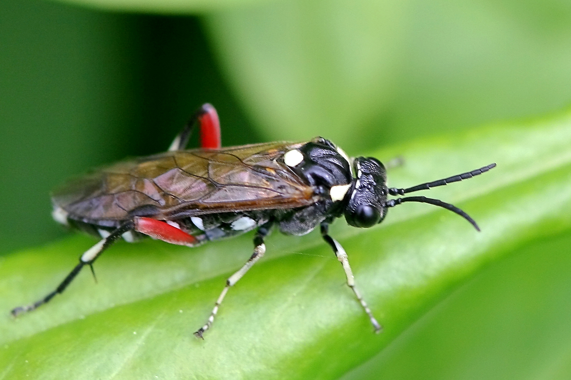 Macrophya punctumalbum. Blattwespe, Sachsen